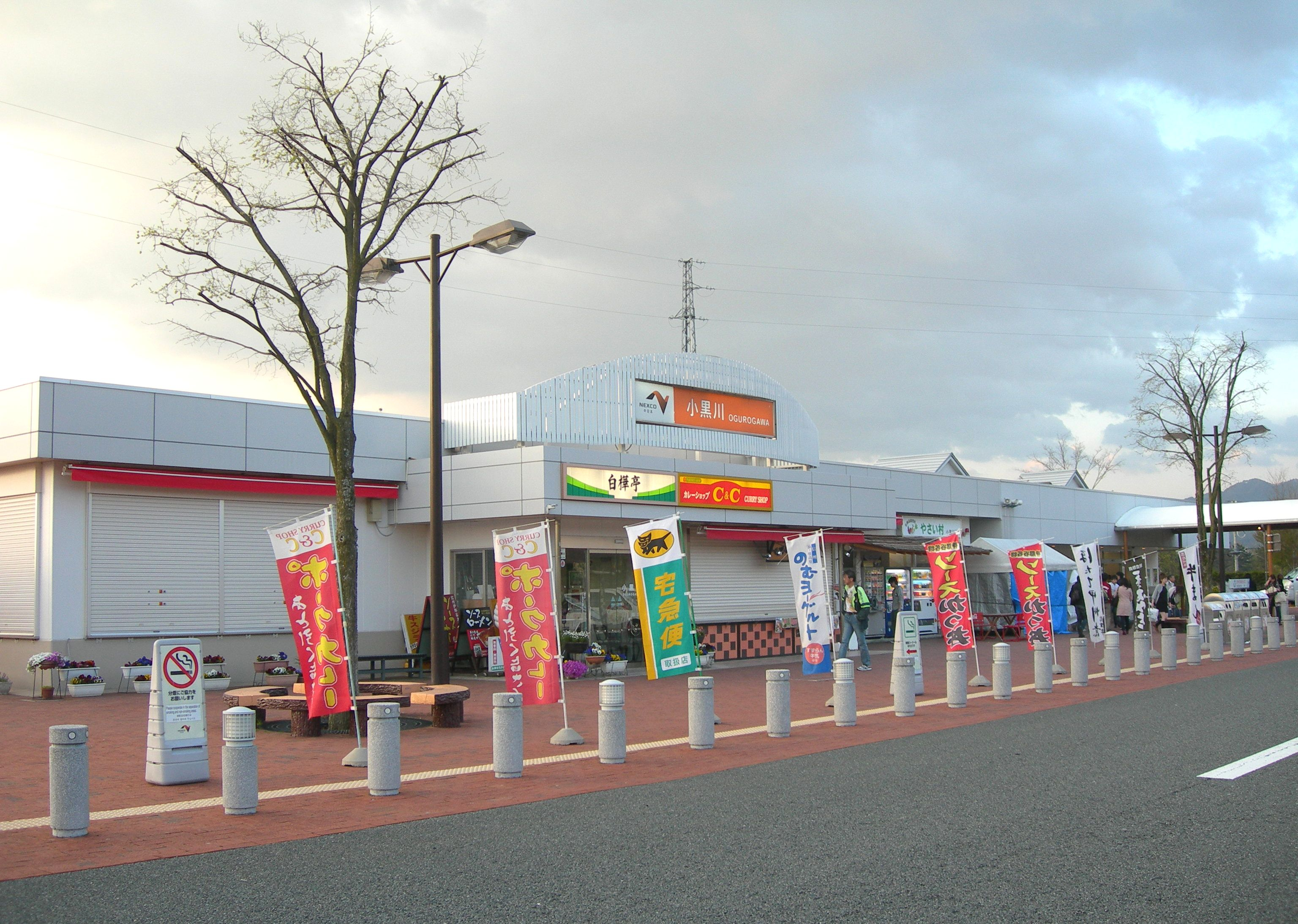 Ogurogawa Parking Area on the Chuo Expressway outbound line for Nagoya